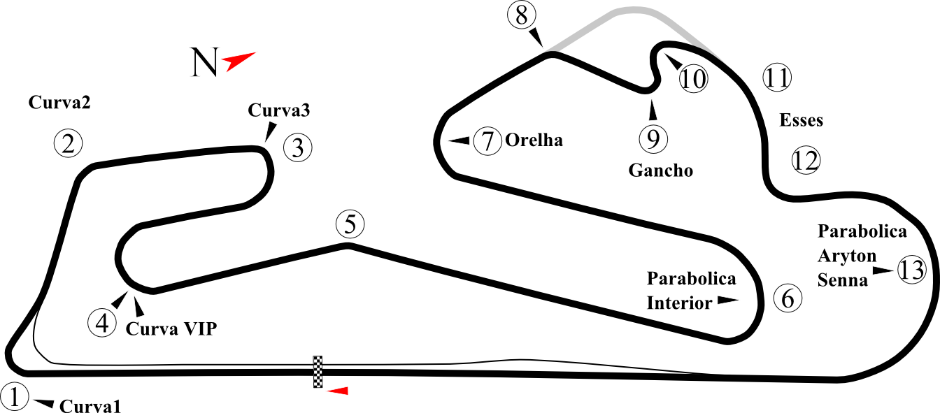 Track map of Estoril. This PNG version is intended for use with browsers like IE7 that don't support SVG.